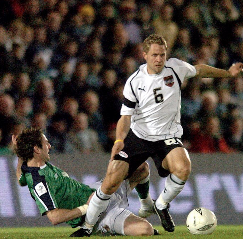 Northern Island - Austria 2004 (Markus Kiesenebner